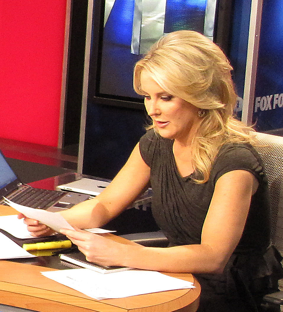 Adm. Mark Ferguson, vice chief of naval operations, is interviewed by Heather Childers, host of the "Morning Live" news program on Fox with Chief Construction Electrician Lynn Rodriguez, left, Lt. Sarah Flaherty and Capt. Lisa Franchetti. Ferguson and the other sailors visited New York as part of Navy efforts to commemorate International Women’s Day and the month of March as Women’s History Month. Ferguson participated in a discussion at the U.N. on women in non-traditional roles and later visited the New York Stock Exchange, where he and the Sailors rung the closing bell.